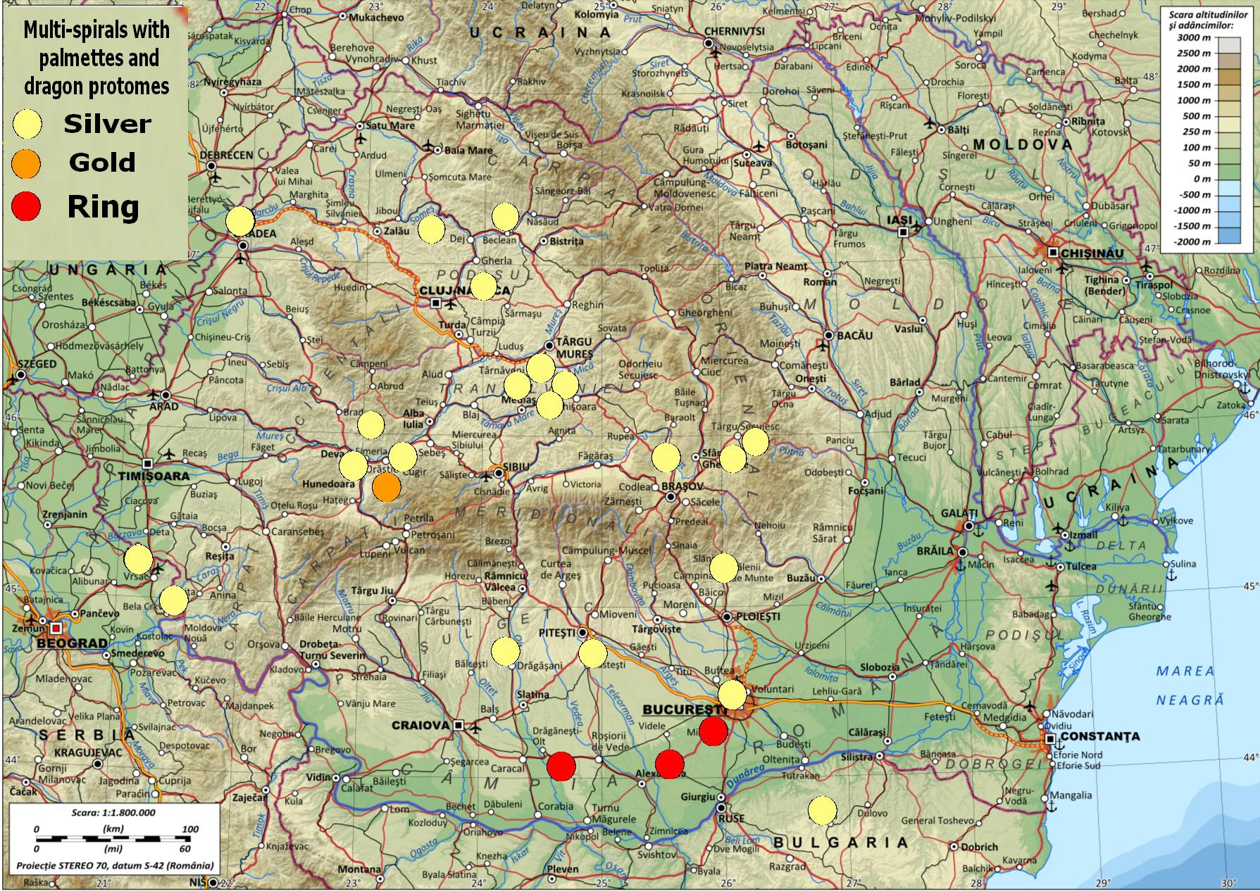 Locations of typical Dacian ornaments multi-spirals snake-head protome and palmettes on the General topographic map of Romania.